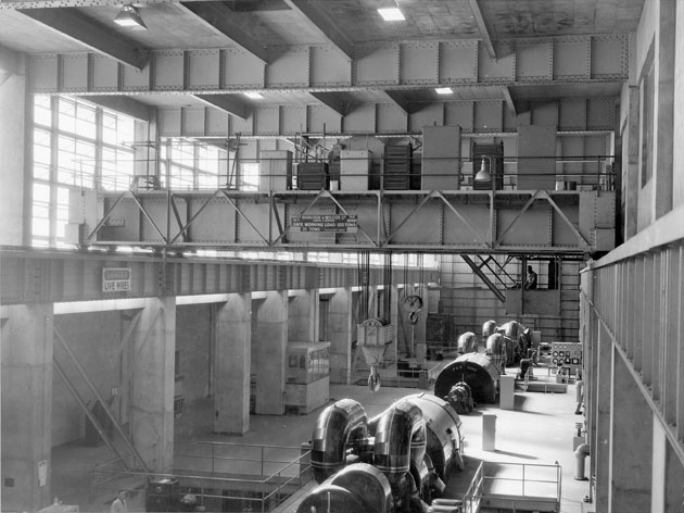 Powerhouse, Tennyson. (Original photo caption makes reference to the Office of the Chief Inspector, Machinery, Scaffolding and Weights and Measures)